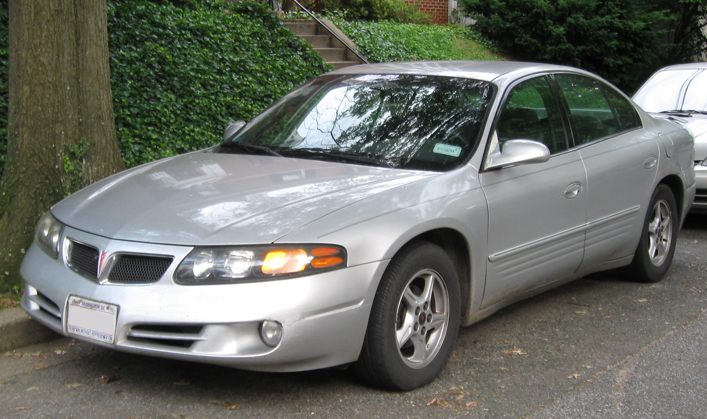 2000-2005 Pontiac Bonneville photographed in Washington, D.C., USA.